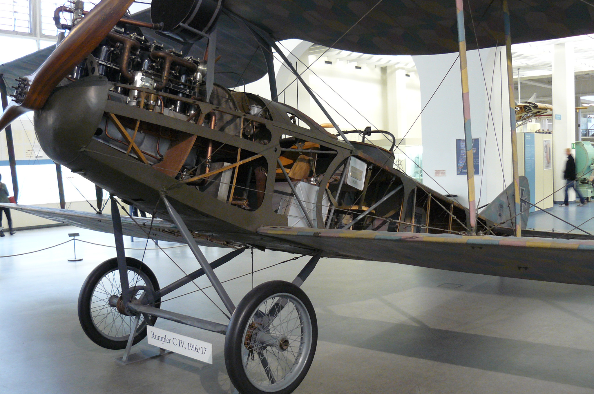 Rumpler C.IV as seen in Deutsches Museum, Munchen (April 2012). Left side and open to see inside of plane